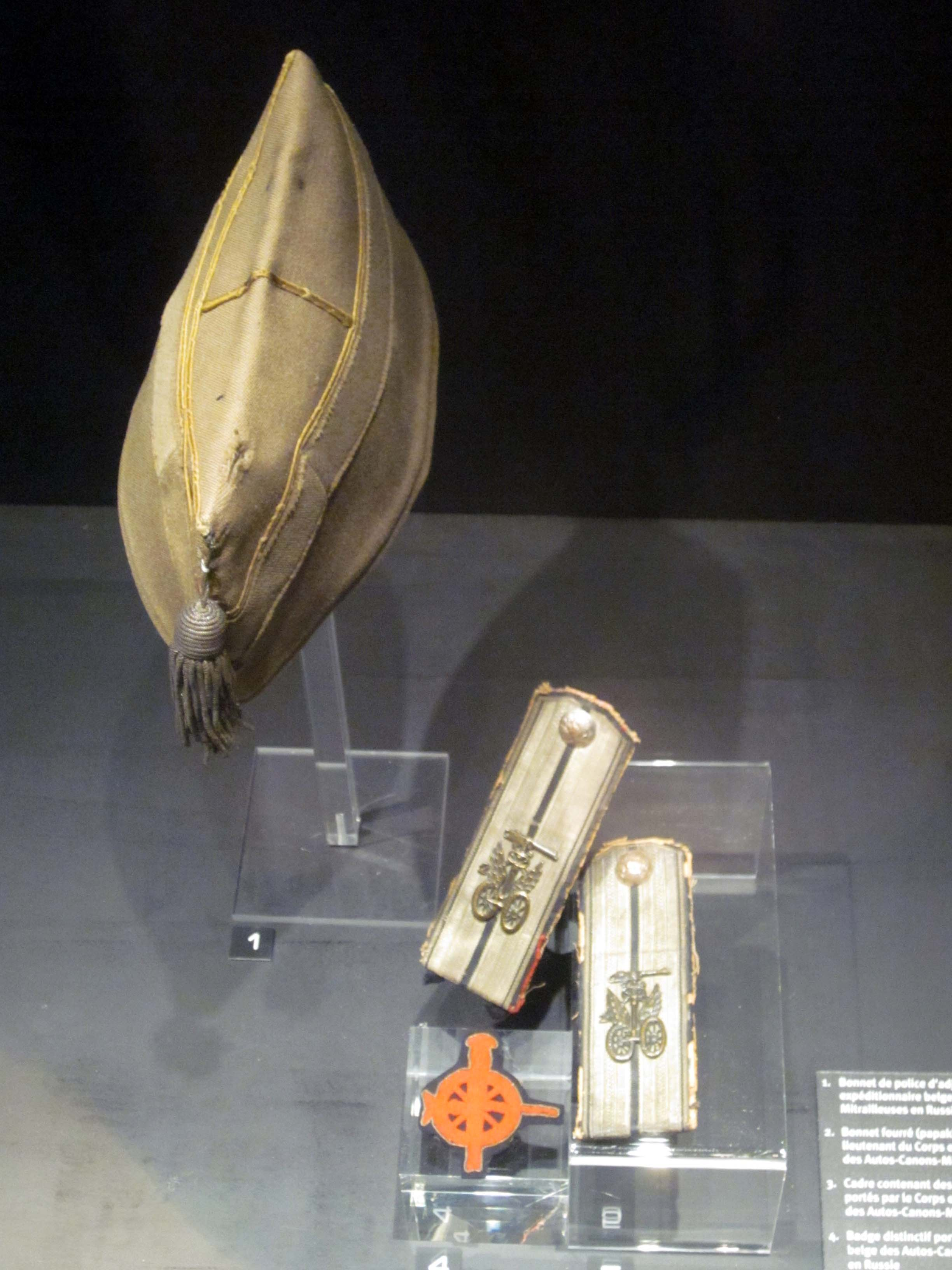 Sidecap and epaulettes from the Belgian Armoured Car squadron in Russia in World War I, with the formation's distinctive badge. From the Royal Museum of the Army and Military History, Brussels.